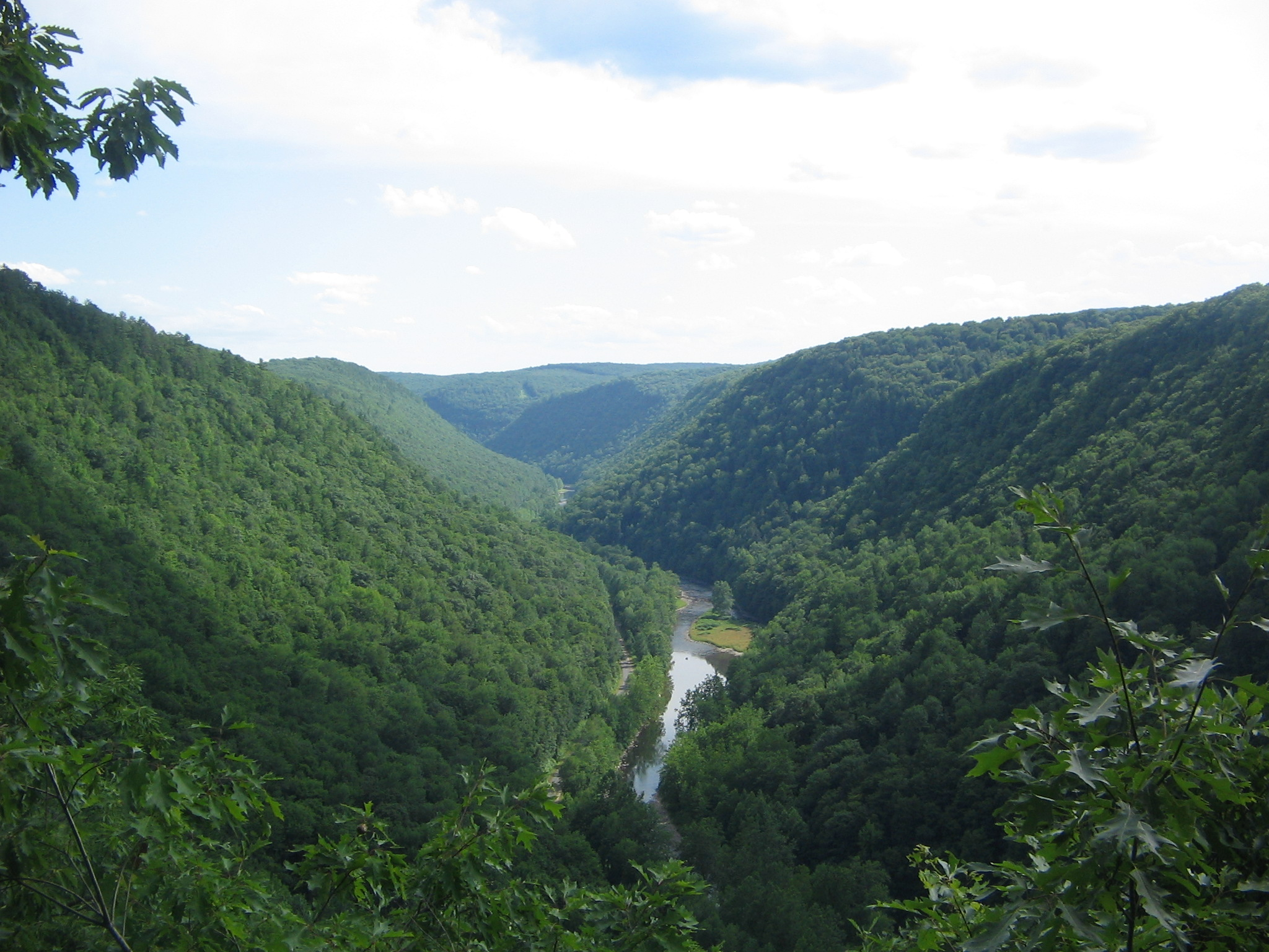 Pine Creek and Pine Creek Gorge looking south from the Otter vista in Leonard Harrison State Park in Shippen Township, Tioga County, Pennsylvania, United States (view looks into Elk and Delmar Townships).